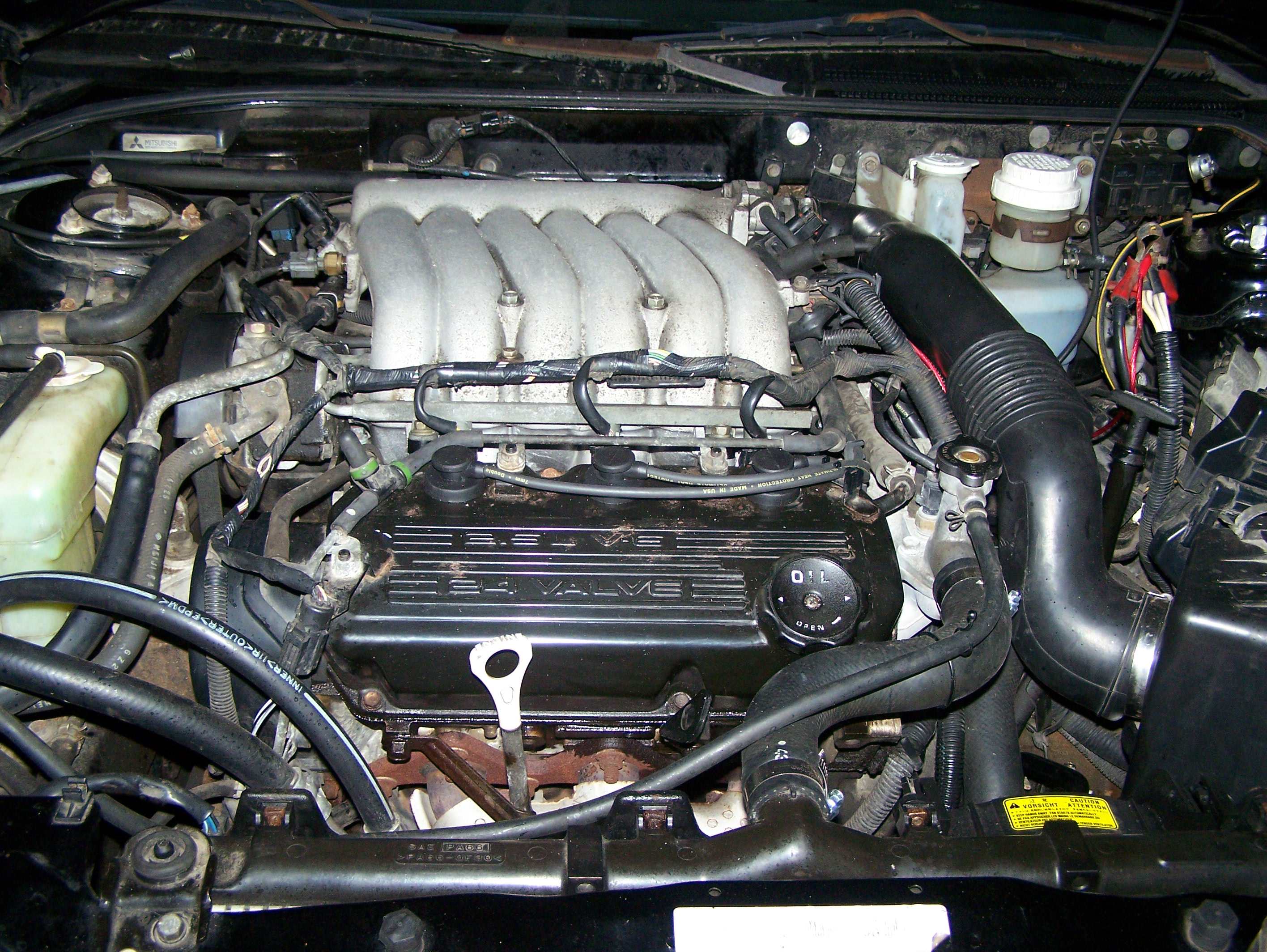 I took the picture myself on 11/21/06 of my own car. It is a mitsubishi 6g73 engine.